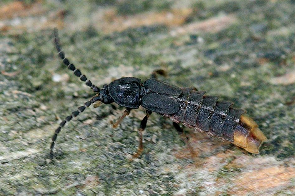 An adult male specimen of Phosphaenus hemipterus (photographed in Switzerland).